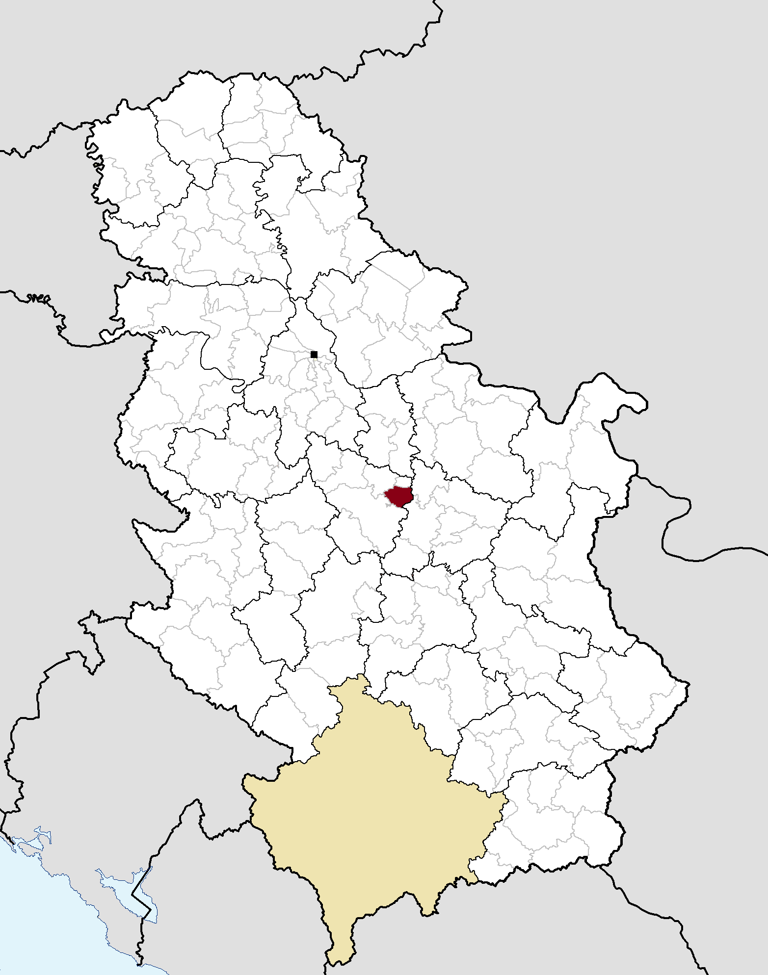 Municipal location in Serbia